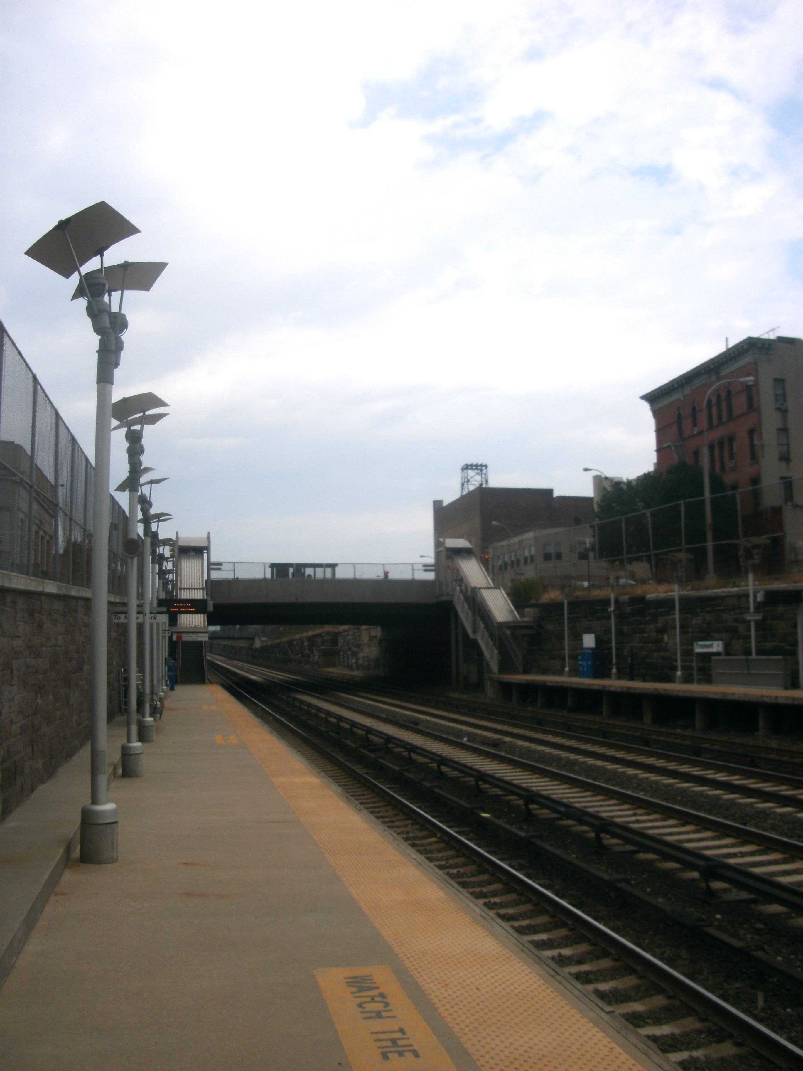 Tremont Station on Metro-North's Harlem Line / New Haven Line facing northbound towards Fordham.